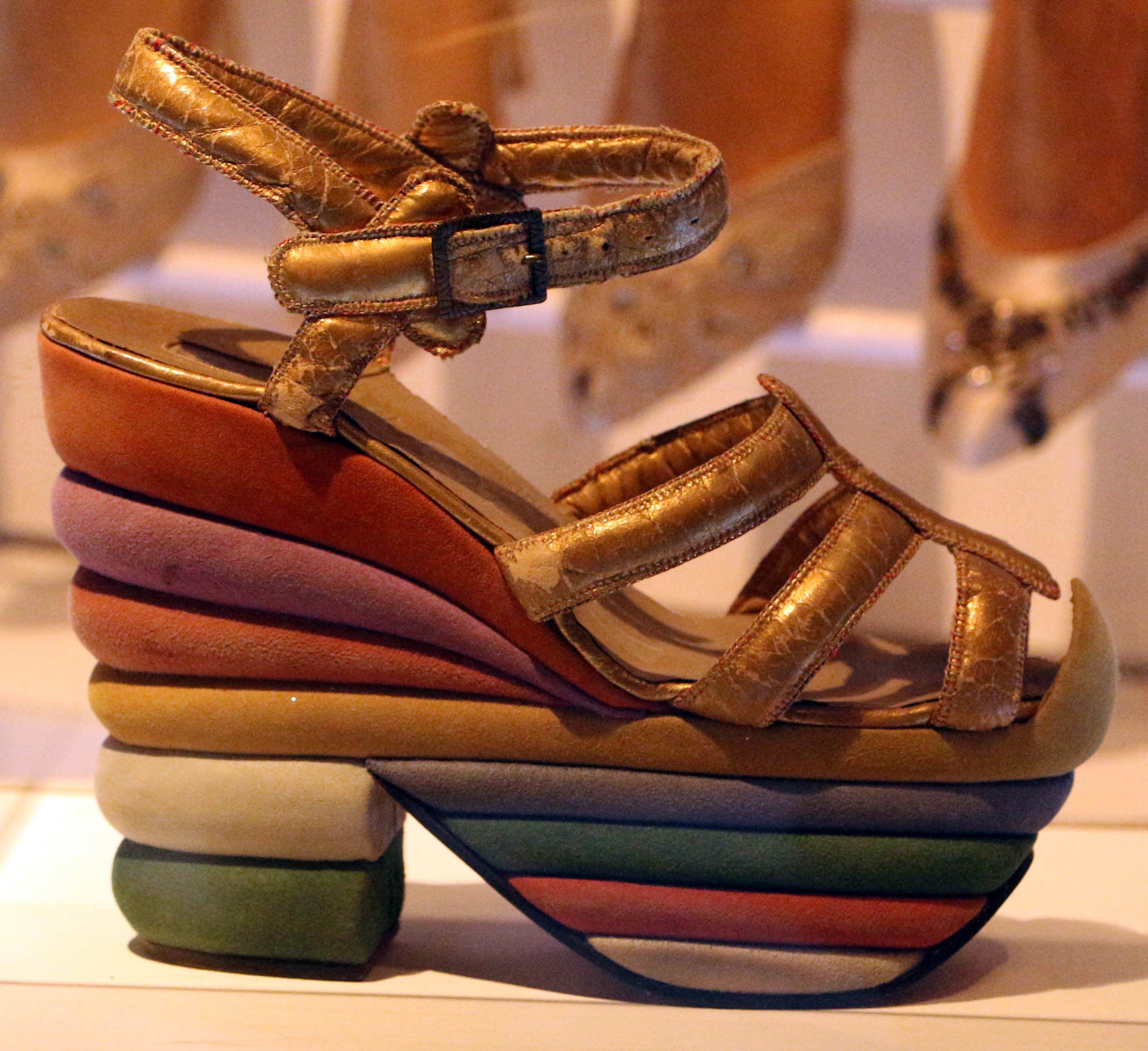 Museo Salvatore Ferragamo